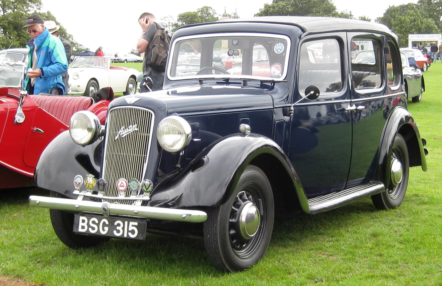 Austin 10 4 door "Conway" cabriolet (canvas roof).